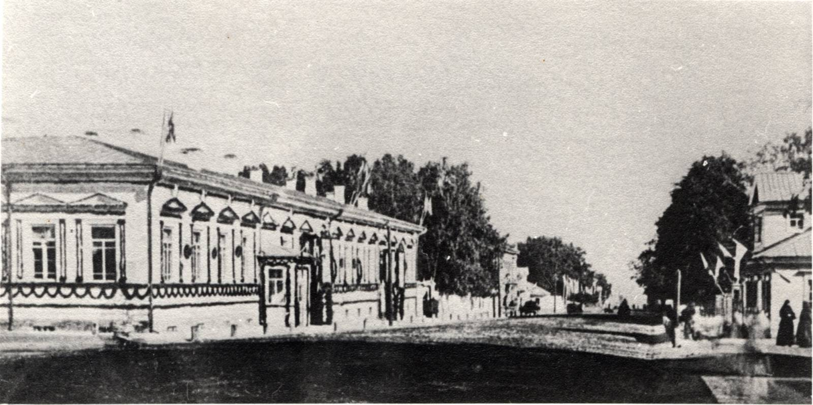 Diaghilev House in Perm